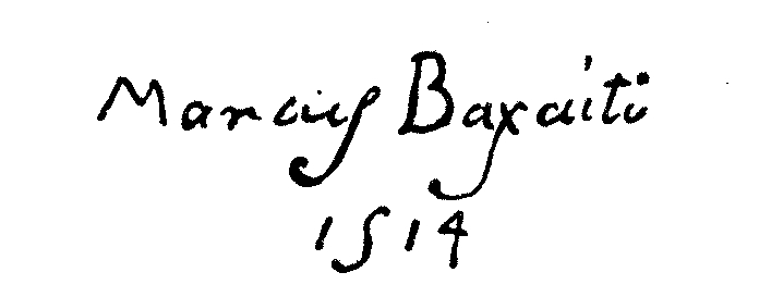 Scan aus Classified Signaturs of Artists